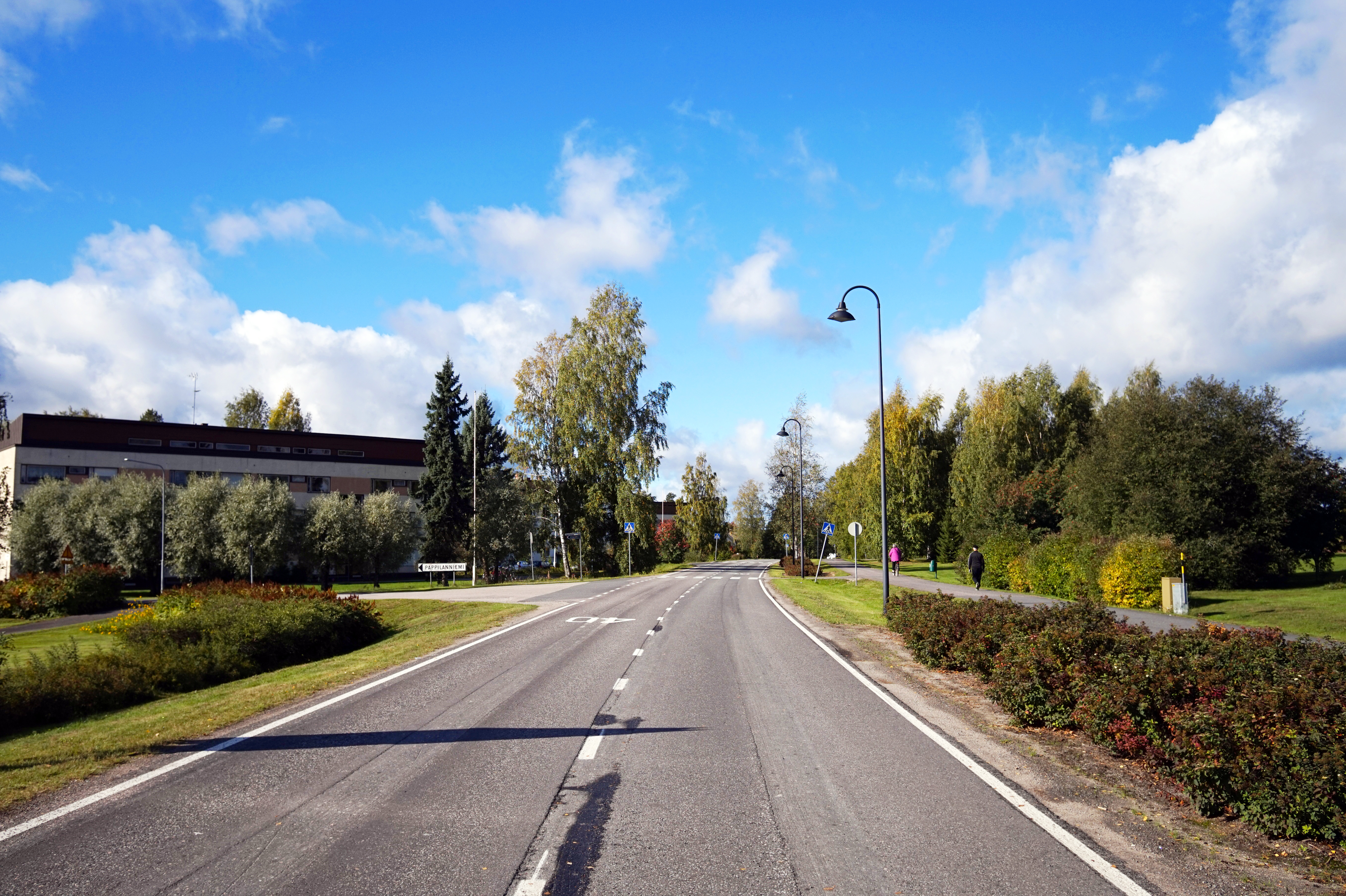 Kangasmannilantie, Keuruu, Finland.